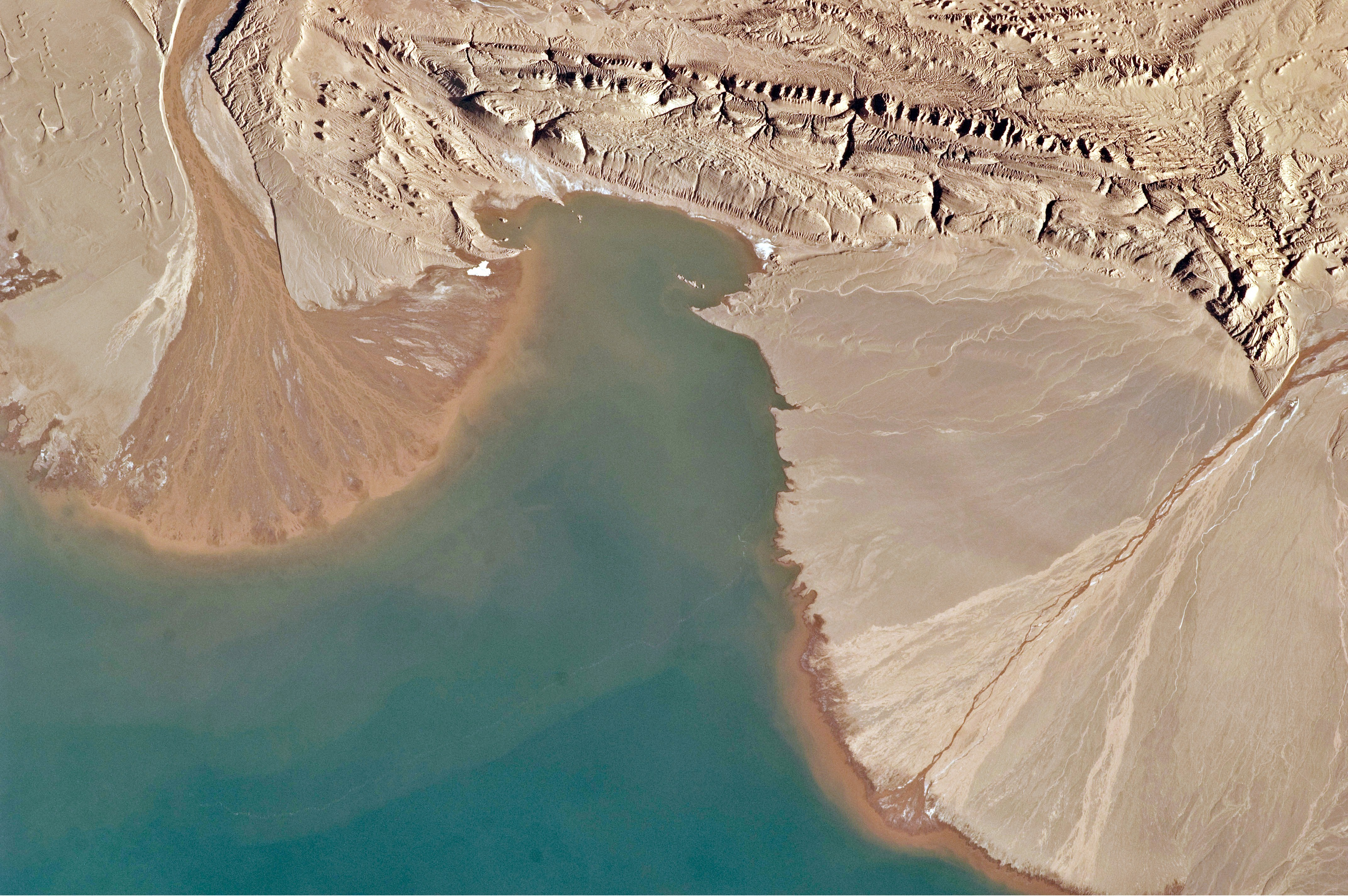 This astronaut photograph highlights two river deltas formed along Lake Ayakum's south-western shoreline. Gray to tan surfaces indicate prior positions of the river channels; the uniform coloration and smooth texture suggest that they are relatively old and now inactive. By contrast, the younger and currently active delta surfaces have reddish-brown sediment and visible river channels. Lateral channel migration is particularly evident in the approximately 8-kilometer wide active delta at image upper left. The reddish color of the fresh sediment may indicate a change from the sources that formed the older parts of the deltas. It might indicate weathering and soil formation on the older deposits. It could even be a sign of episodic inputs of dust or other material to the river catchments.